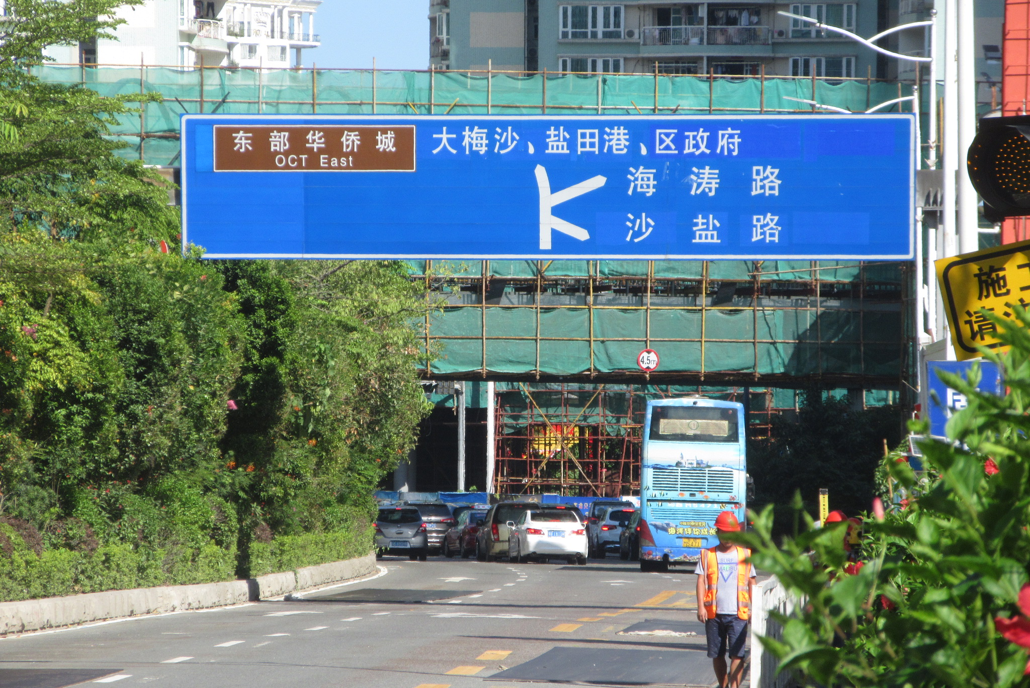 SZ 深圳 Shenzhen 鹽田區 Yantian District 深鹽路 Shenyan Road in Sept 2017